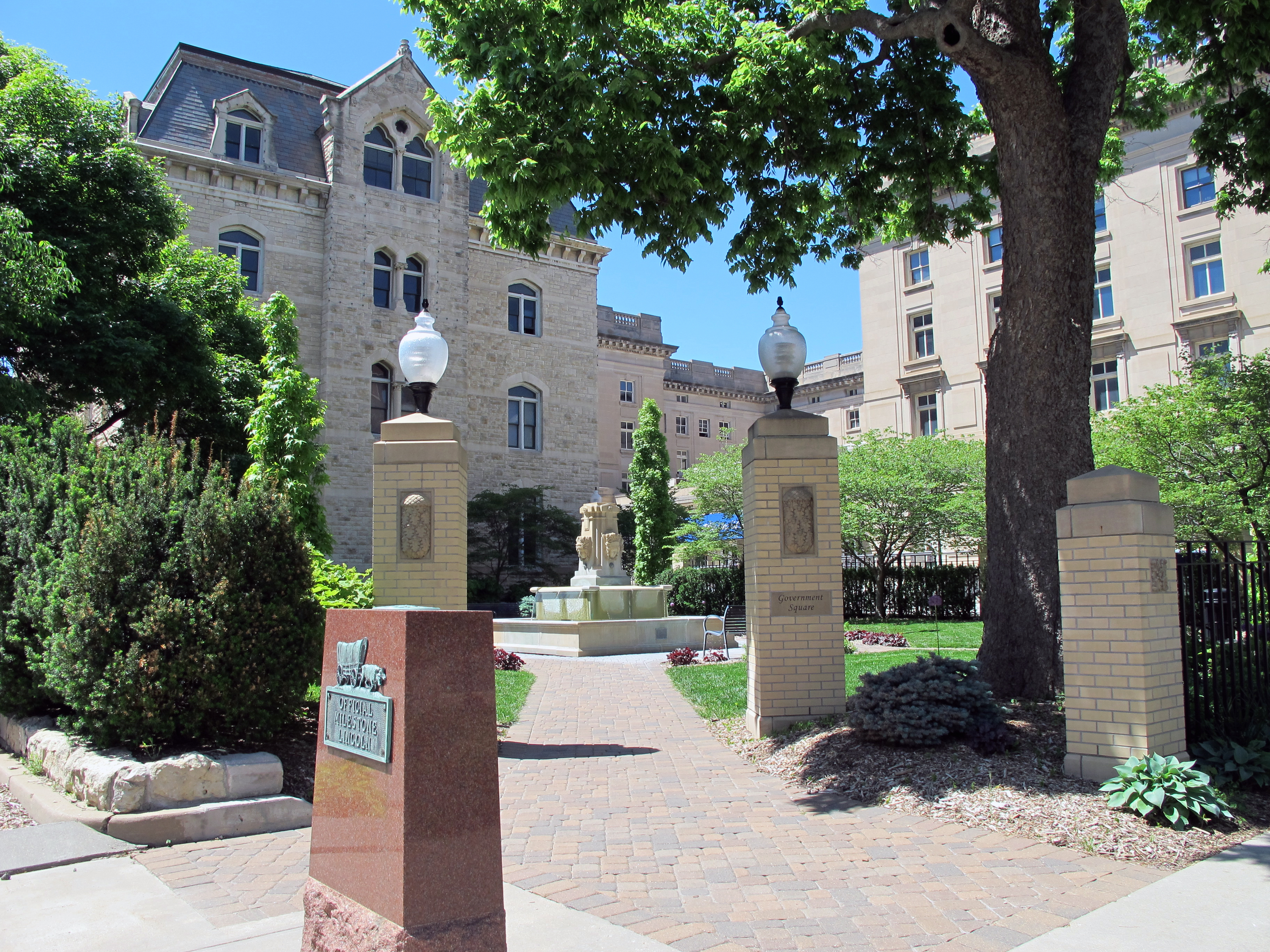 Photo is of Government square, Lincoln, Nebraska. Photo is taken at the northwest corner of 10th & "O" Streets, looking northwest into the square. The square is situated next to old city hall (left of center, in background of photo), which is just south of the old federal courthouse (from right to center, in background of photo). The square has a fountain and is a flower garden.